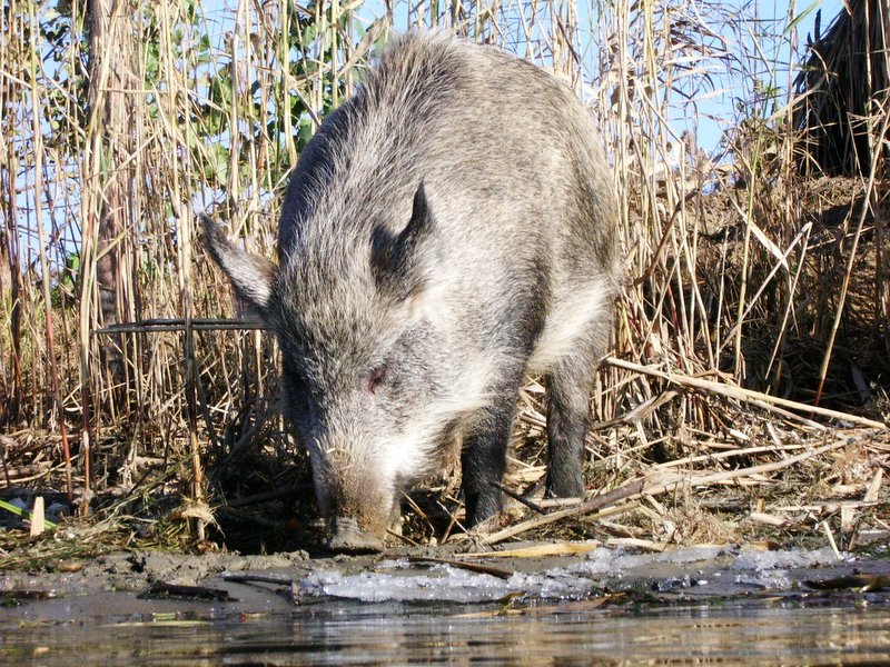 Wild boar. Volgograd Region.